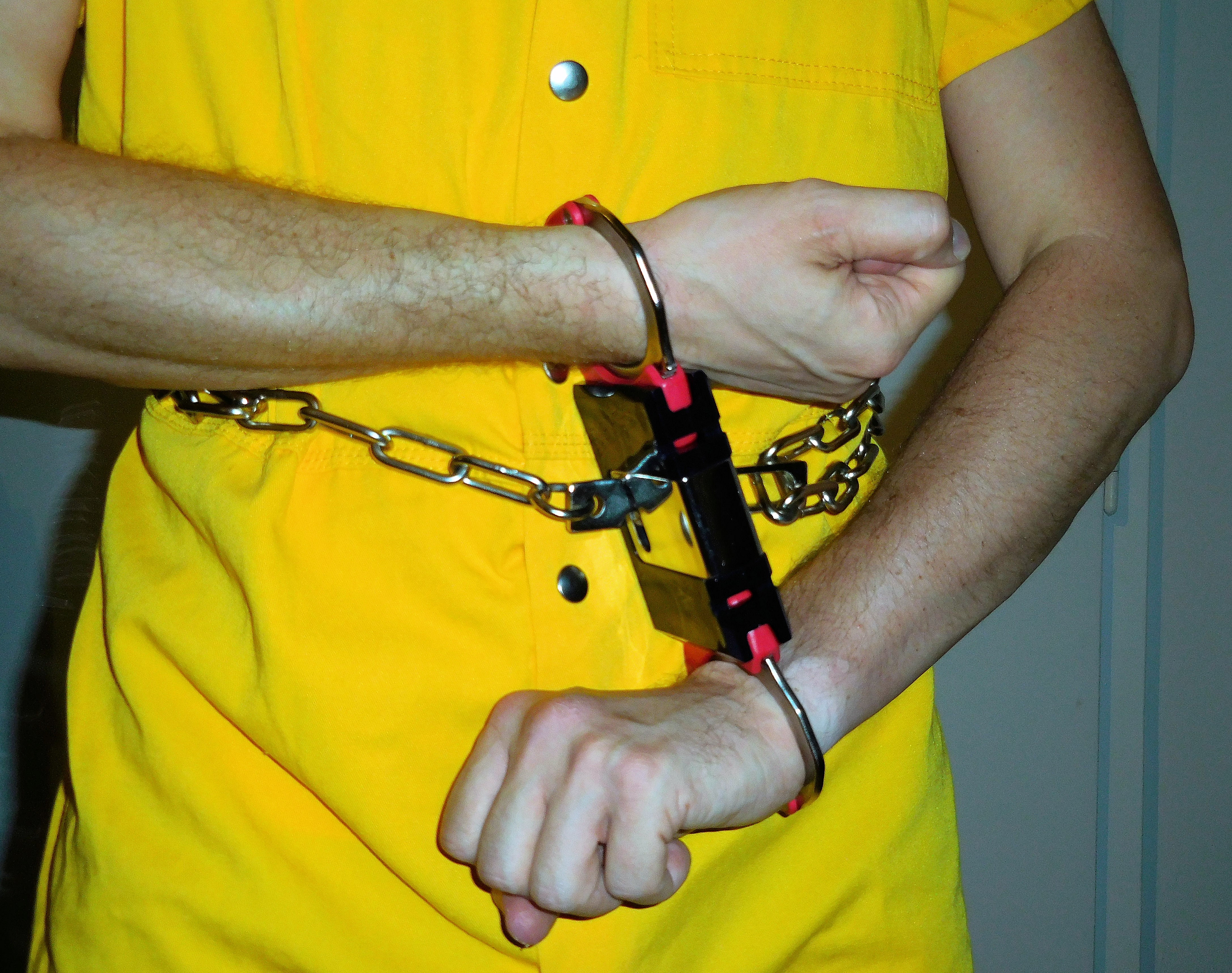 Closeup of an inmate in yellow institutional coverall and high security restraints, consisting of handcuffs secured with a handcuff cover and a belly chain